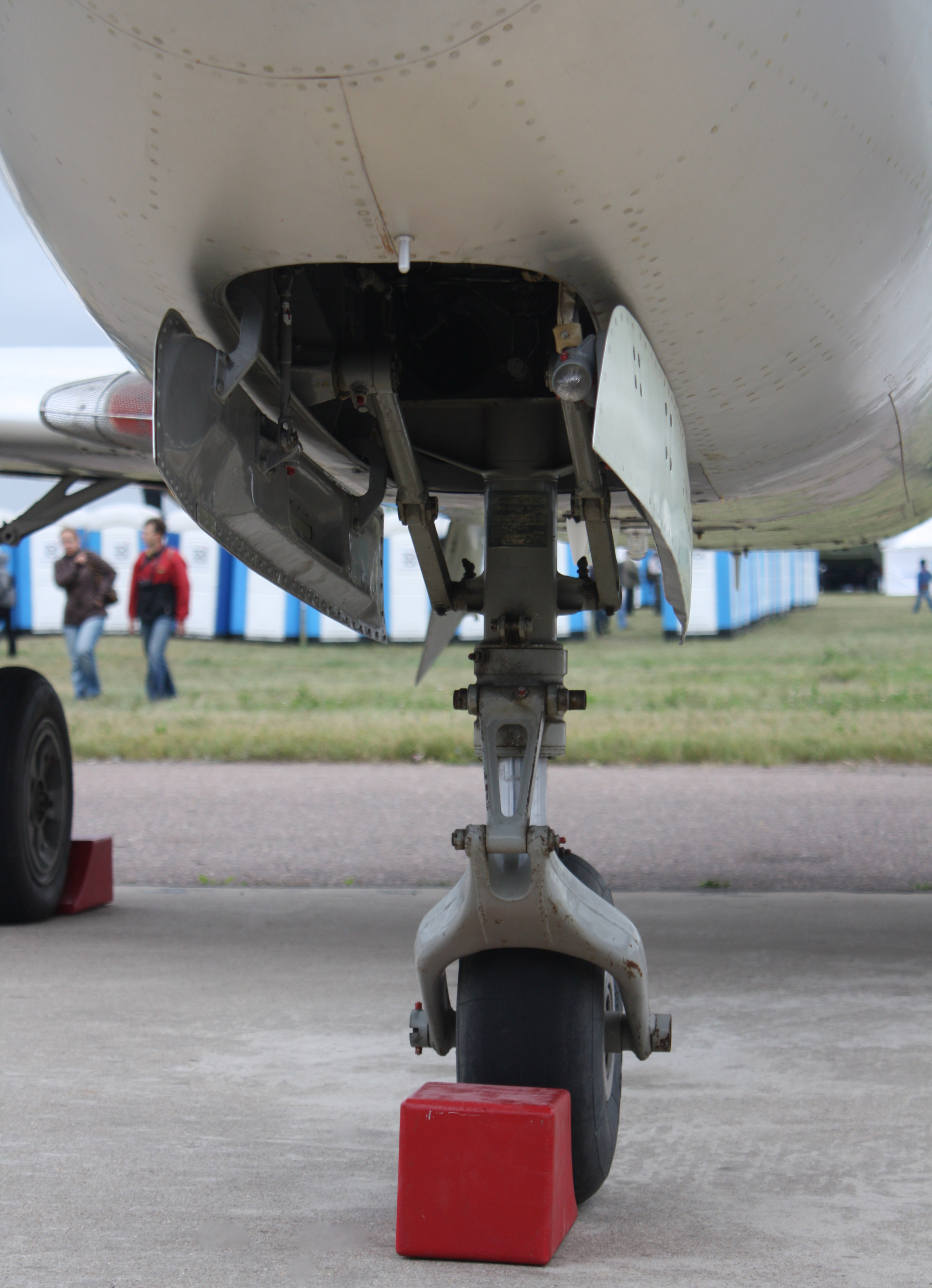 Yakovlev Yak-32. The forward chassis (The international aerospace salon MAKS-2009)